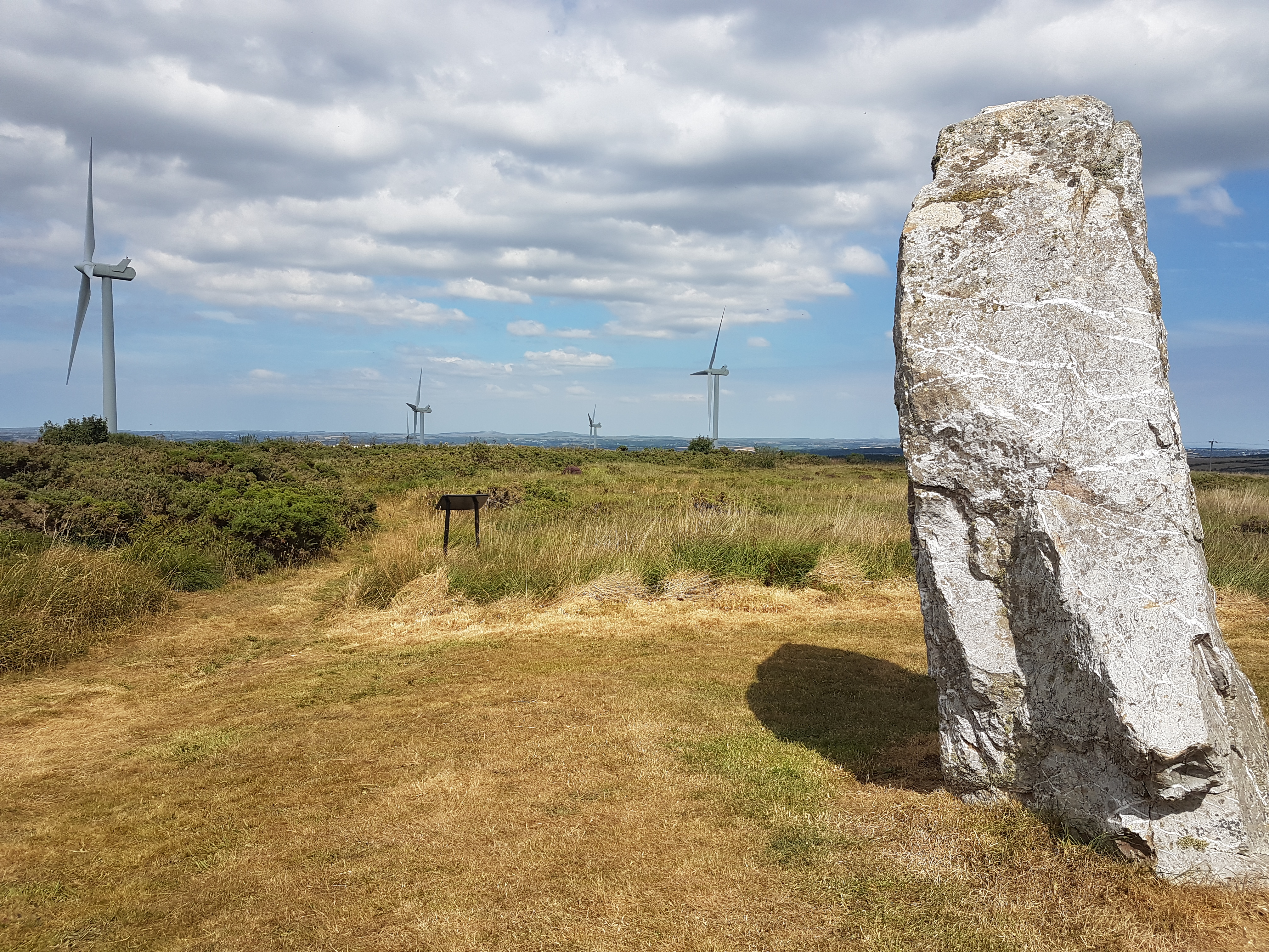 This prehistoric standing stone is the largest and the heaviest in Cornwall. Kernowek: Men Gurta - St Breock - Kernow